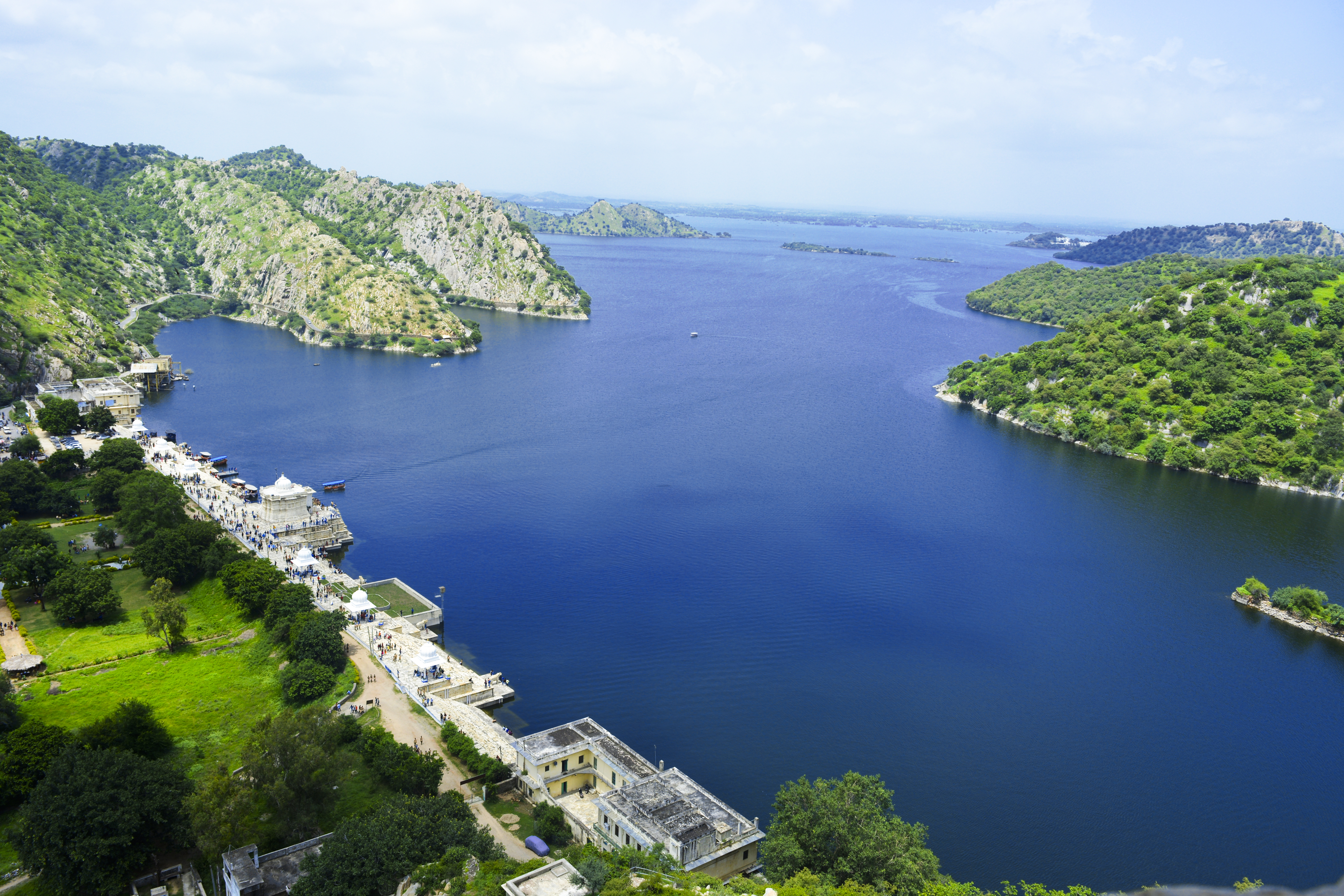 Picture showing full view of jaisamand lake !